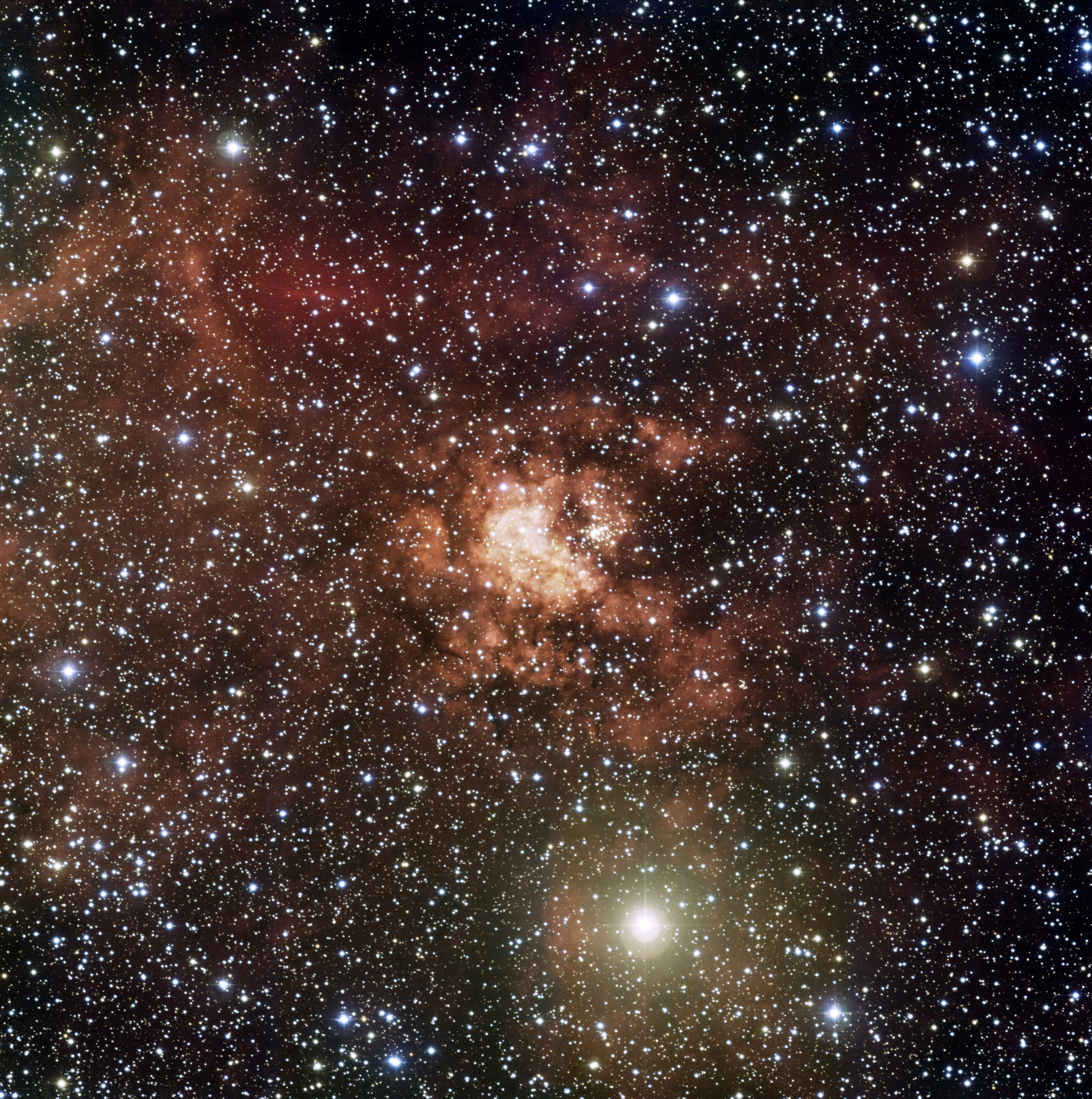 This image shows the amazing intricacies of the vast stellar nursery Gum 29. At its centre lies the cluster of young stars Westerlund 2. One object at the bottom of the cluster is in fact a system of two of most massive stars known to astronomers. The image is based on data obtained with the Wide Field Imager (WFI) camera attached to the 2.2-m Max-Planck/ESO telescope through four different filters (B, V, R, and H-alpha). Credit: ESO